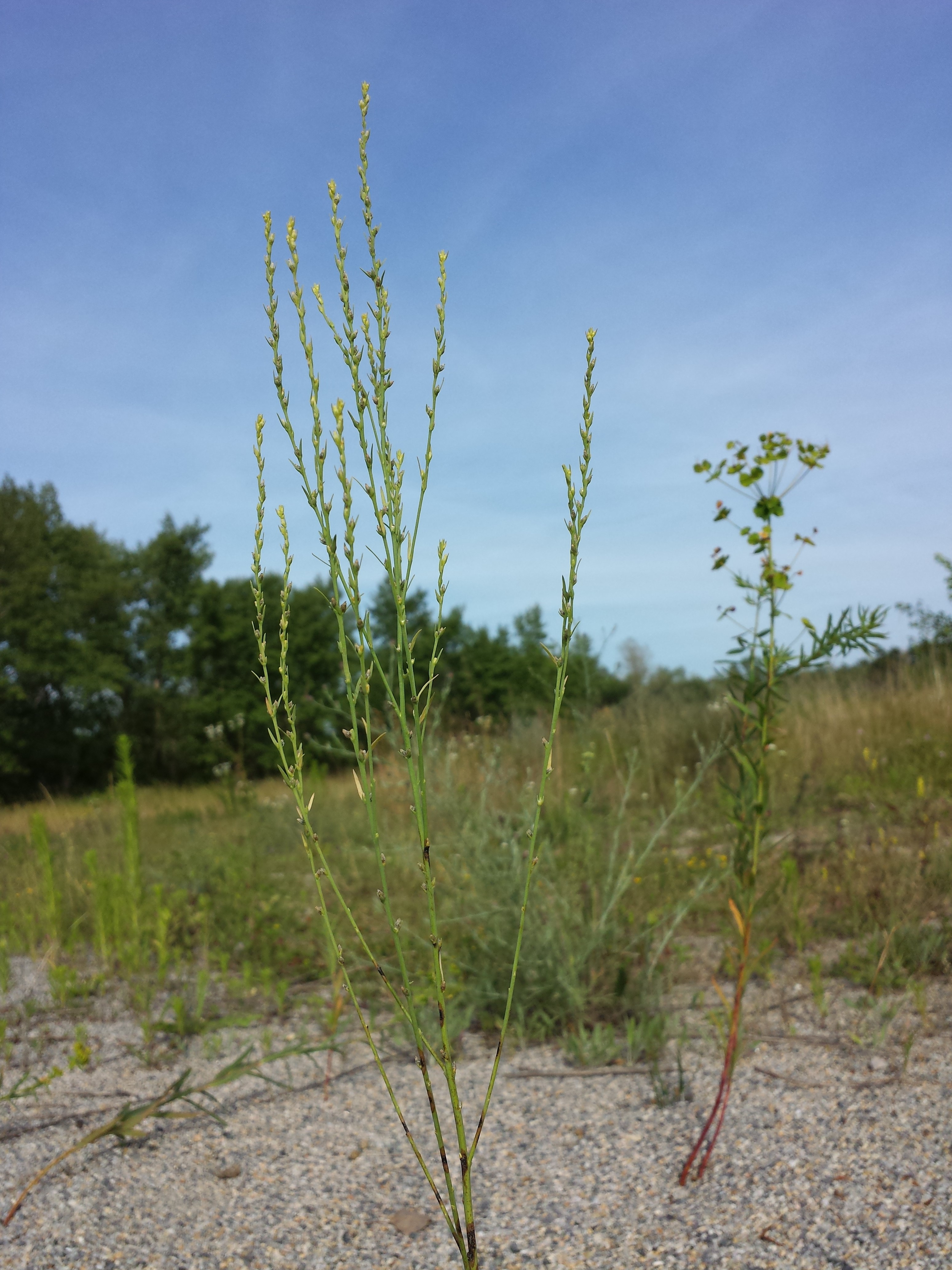 Florescence Taxon: Thymelaea passerina (sensu Fischer et al. EfÖLS 2008 ISBN 978-3-85474-187-9) Location: abandoned marshalling-yard Breitenlee, Vienna-Donaustadt - ca. 160 m a.s.l. Habitat: dry grassland